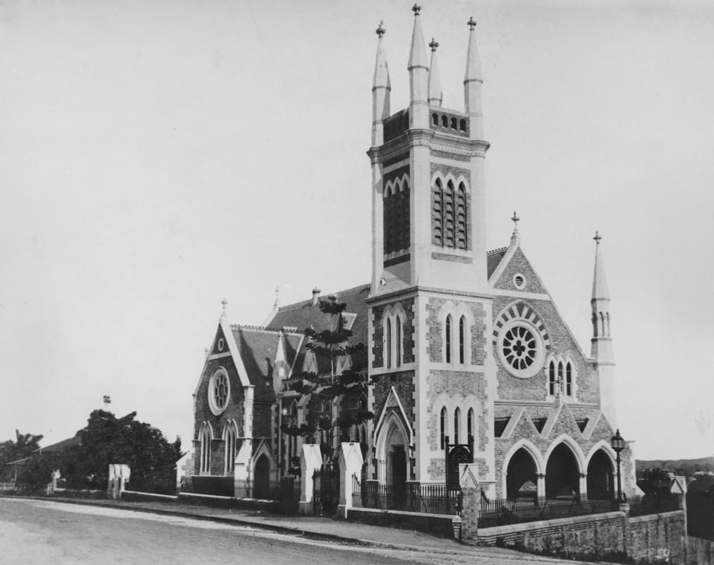 Second Wickham Terrace Presbyterian Church in Brisbane, 1890 This church, which replaced the first one on the corner of Creek Street, was opened for service on 6 November 1887. The Railway Department later resumed the property including the church, and in 1901 when Central Station came into use the building became a repository for Railway Department records. From 1929 to 1941 it was used as a gymnasium. In 1942 it was leased to the Congregational Church who remained until 1960. The building has now been demolished to make way for new roadworks in the area. (Description supplied with photograph.).